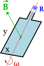 Rotating frame in a magnetic field